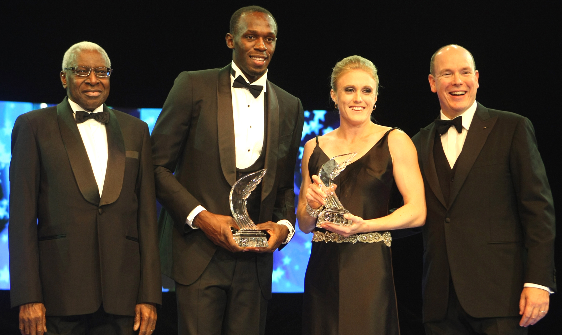 Sally Pearson and Usain Bolt, along with IAAF president Lamine Diack and Prince Albert of Monaco, pose with the IAAF Athlete of the Year awards in Monaco. Pic by Mohan